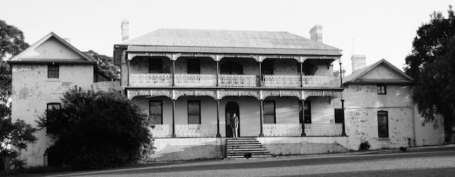 Located at 19 Lawson Street, Eastwood, NSW, Australia Brush Farm House was built circa 1820 by Gregory Blaxland, following his purchase of the Brush Farm Estate in 1807. It is not only one of Australia's oldest houses but also one of the most substantial houses surviving from the Macquarie period. Brush Farm House represents a nationally important site where some of the colony's initial land grants were made. Text source: City of Ryde web site retrieved 19 Sep 2013